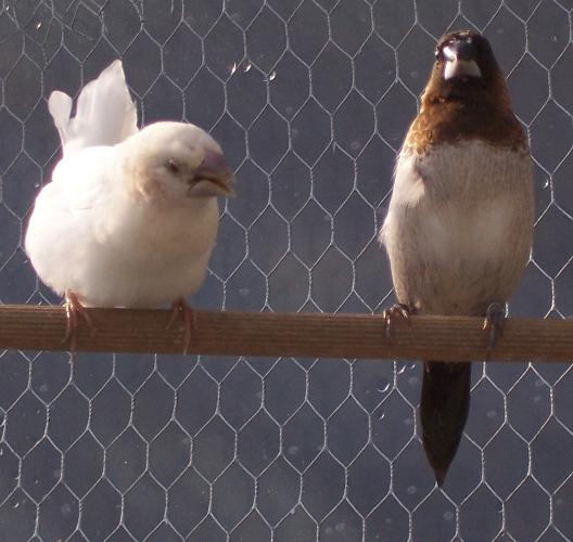 A pair of Bengal finches, a type of hybrid estrildid common in captivity